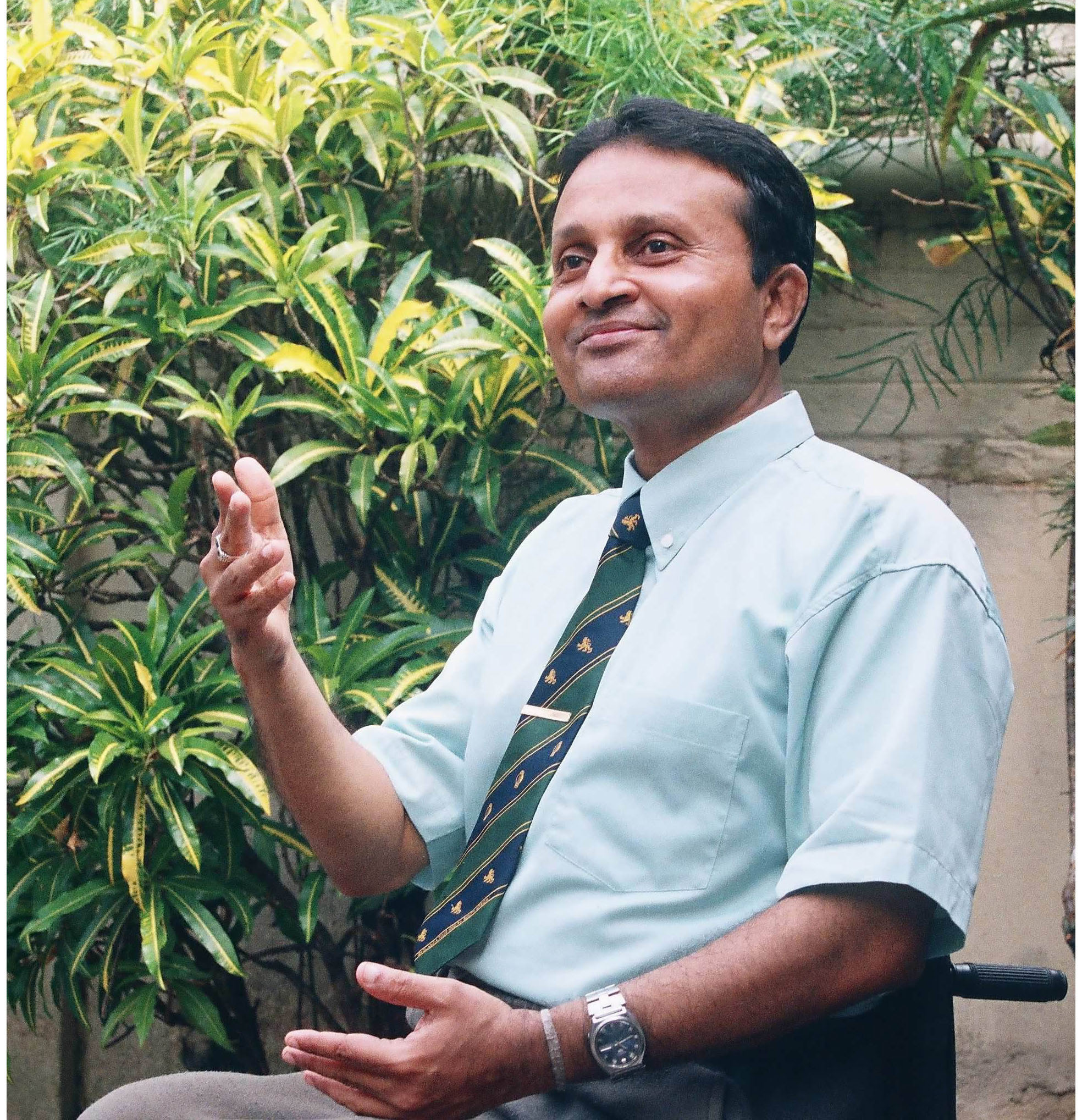 Photograph was taken by me at an awareness programme held in Colombo in 2009